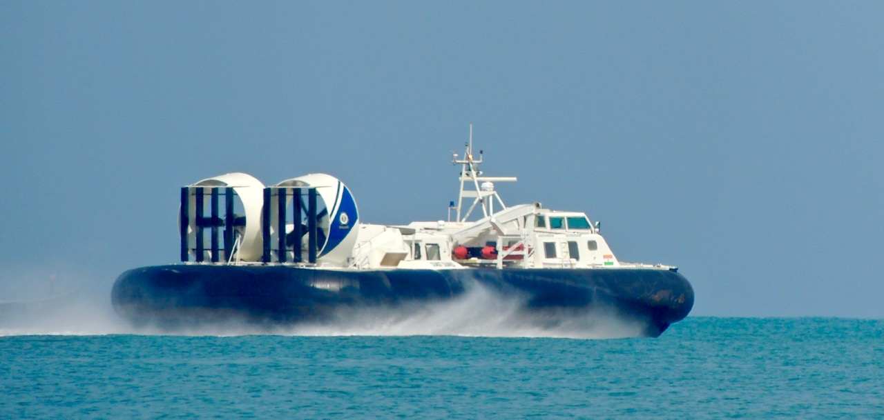 Hovercraft owned by Coast guard of India